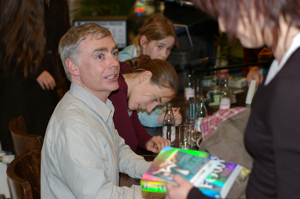 Eoin Colfer during a reading of his new book "Artemis Fowl: The Lost Colony" in Berlin, Germany.